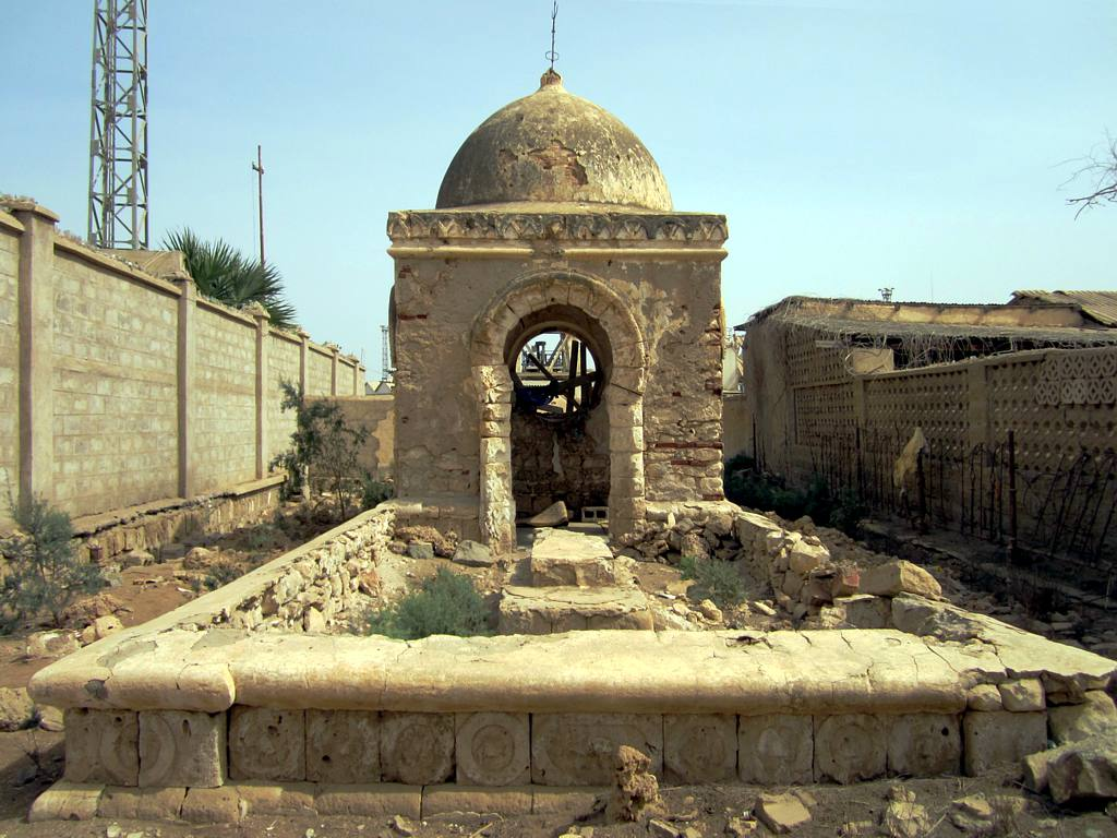 The 16th century Tomb of Sheikh Durbush in the old city of Massawa, Eritrea. Who exactly Sheikh Durbush was remains a mystery.